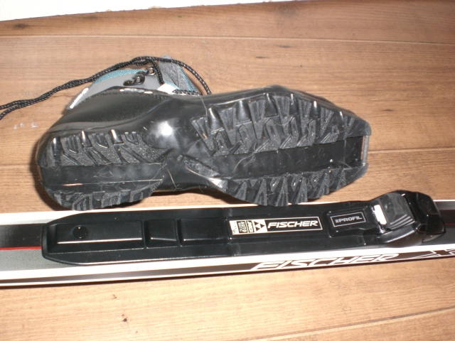 Photograph of Cross Country ski binding and boot. SNS binding type